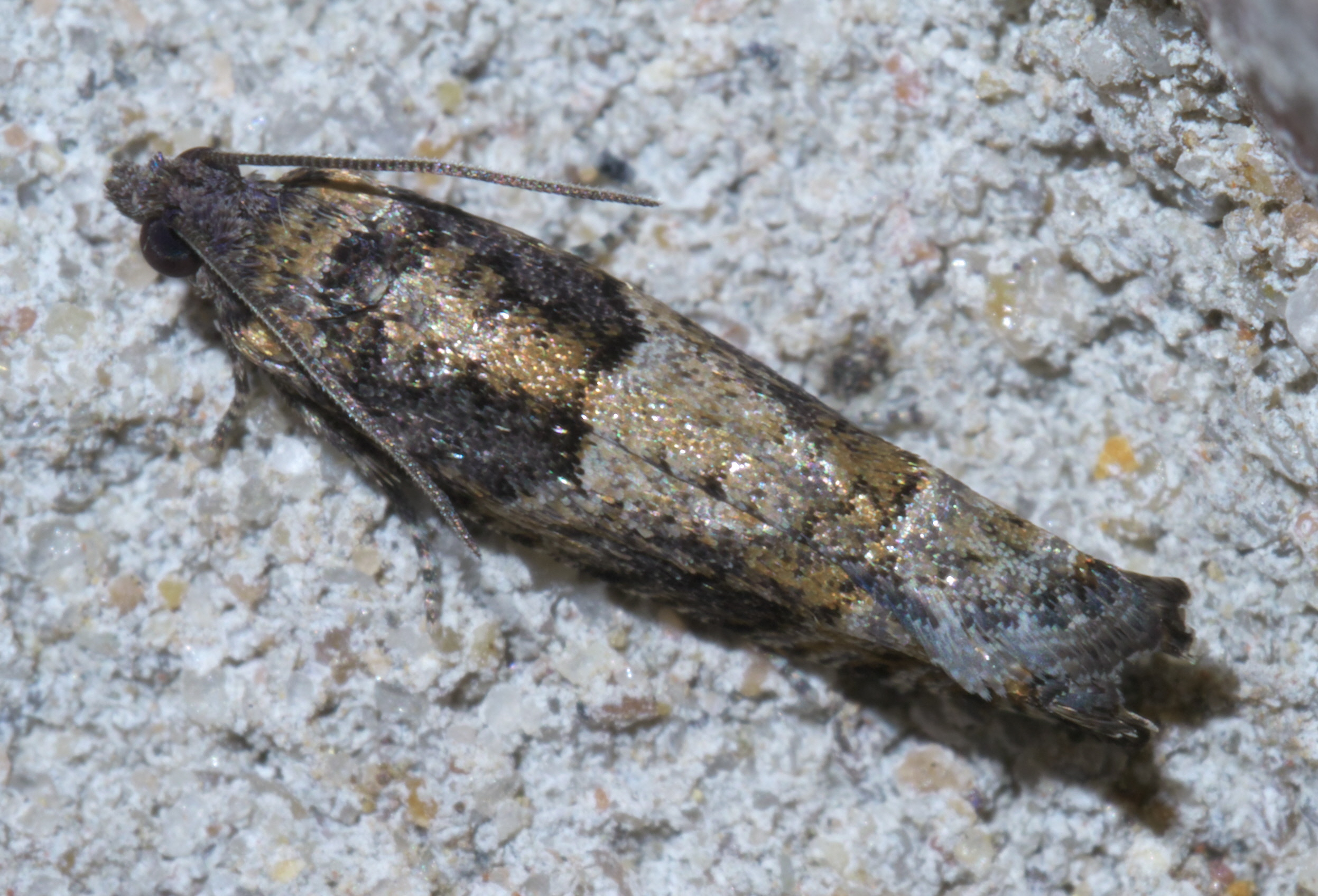 Pseudexentera, Family: Tortricid Moths, Size: 8.1 mm